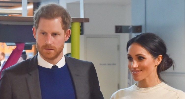 During their first visit to Northern Ireland on 23 March 2018, Prince Harry and Ms. Markle visited Catalyst Inc. An independent, non-profit organisation which works to build a community of innovators in Northern Ireland, providing the home, support and networks to nurture innovators and entrepreneurs to aim higher and succeed faster. The visit saw talented individuals from across Northern Ireland showcase their products and inventions to Prince Harry and Ms. Markle, talking them through the entrepreneurial journey - from the original idea through to the final product.